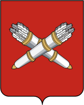 Belebei (Bashkortostan), coat of arms